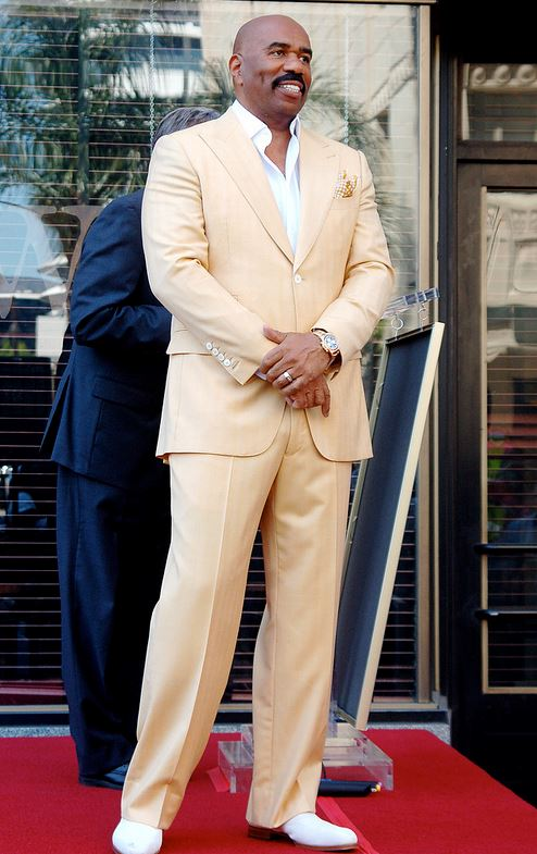 Steve Harvey at a ceremony to receive a star on the Hollywood Walk of Fame.